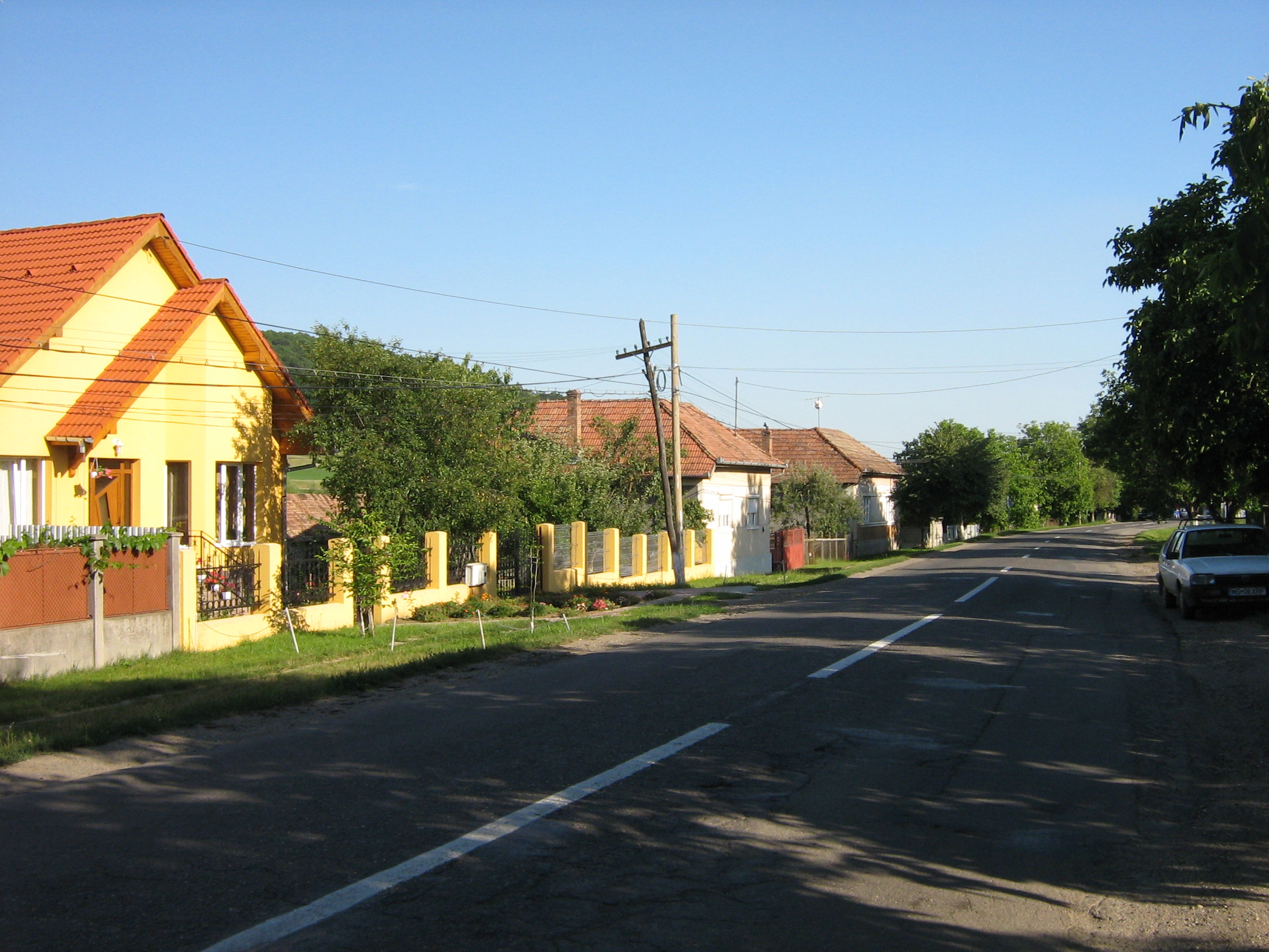 DN15E national road in Voiniceni (Romania)